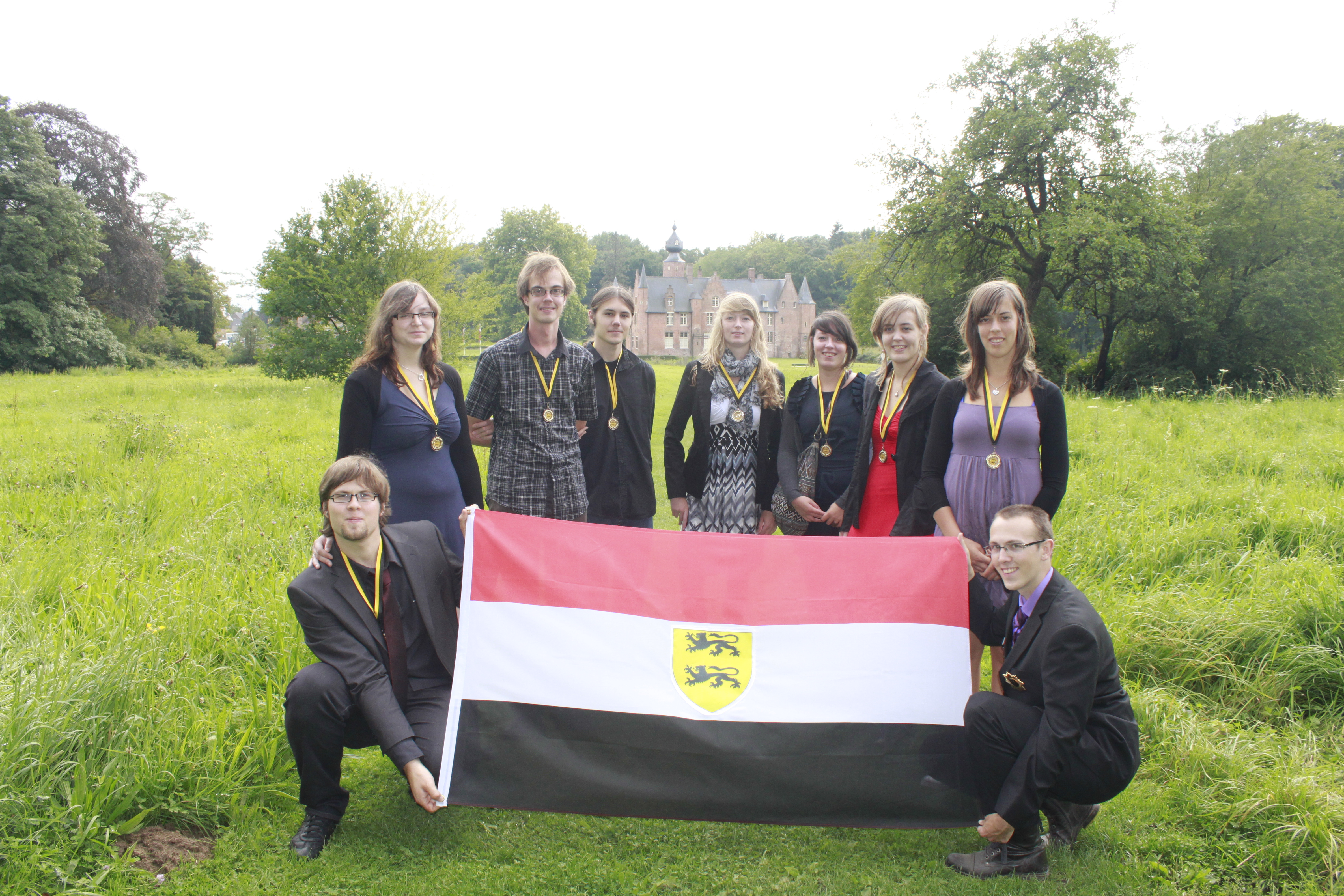 Photo of citizens of the micronation Grand Duchy of Flandrensis published in: DAMIAANS, R., DILLEN, R., Uw krant op bezoek bij Europese micronaties Deel 1: Flandrensis, Het Belang van Limburg, 20 July 2012, page 20-21 DAMIAANS, R., DILLEN, R., Dwergstaten Deel 1: Flandrensis, Gazet van Antwerpen, 23 July 2012, page 8-9 VANSTEENKISTE, A., “Hoogledenaar is Groothertog van micronatie Flandrensis, Het Nieuwsblad, 13 September 2012, page 22-22